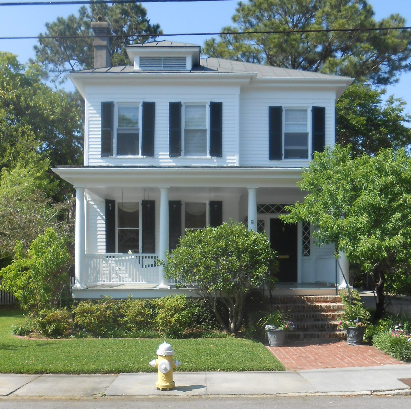 20 Gibbes Street, Charleston, South Carolina